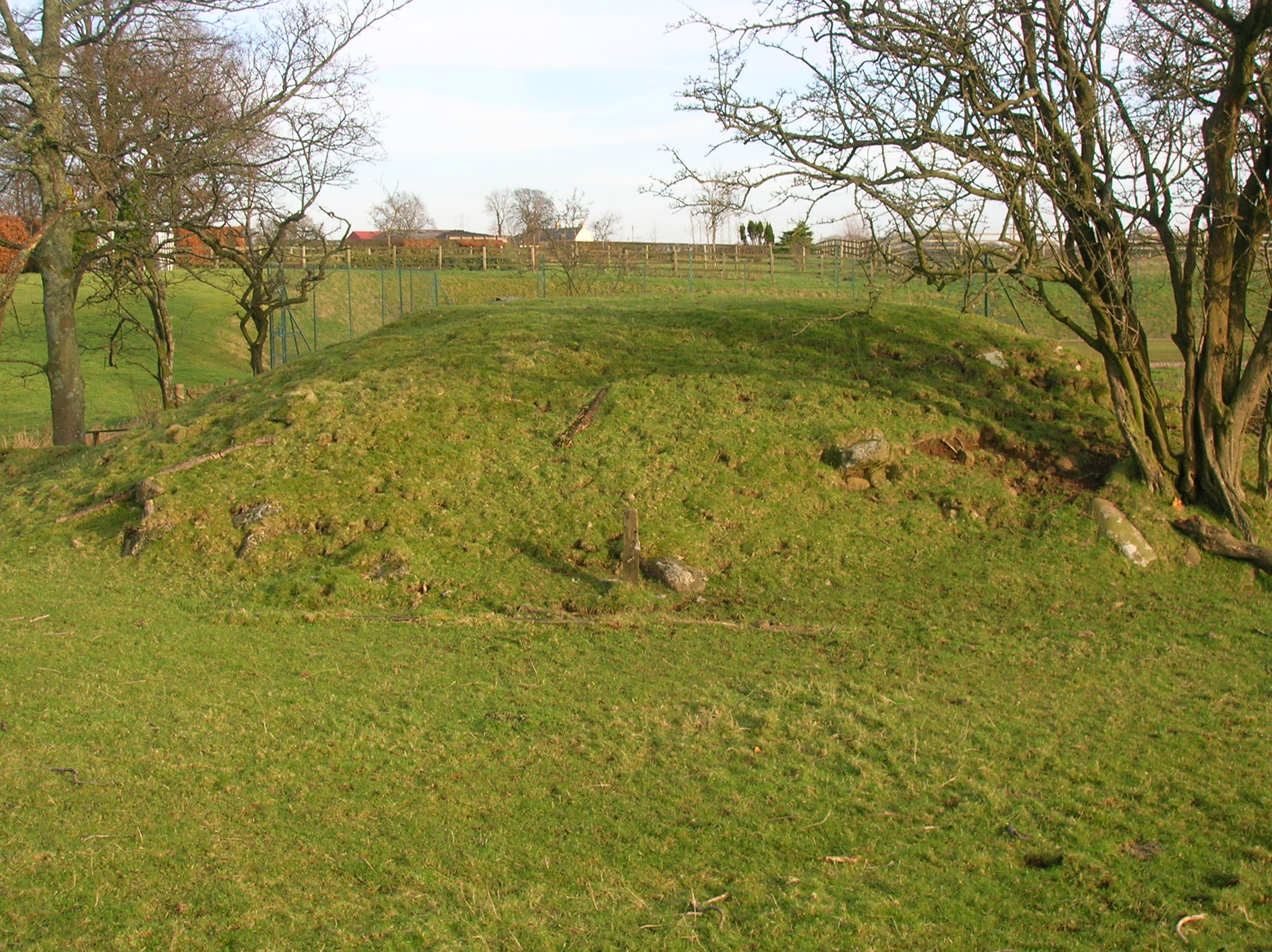 A view of the Court Hill from the field. Beith. North Ayrshire. Scotland.